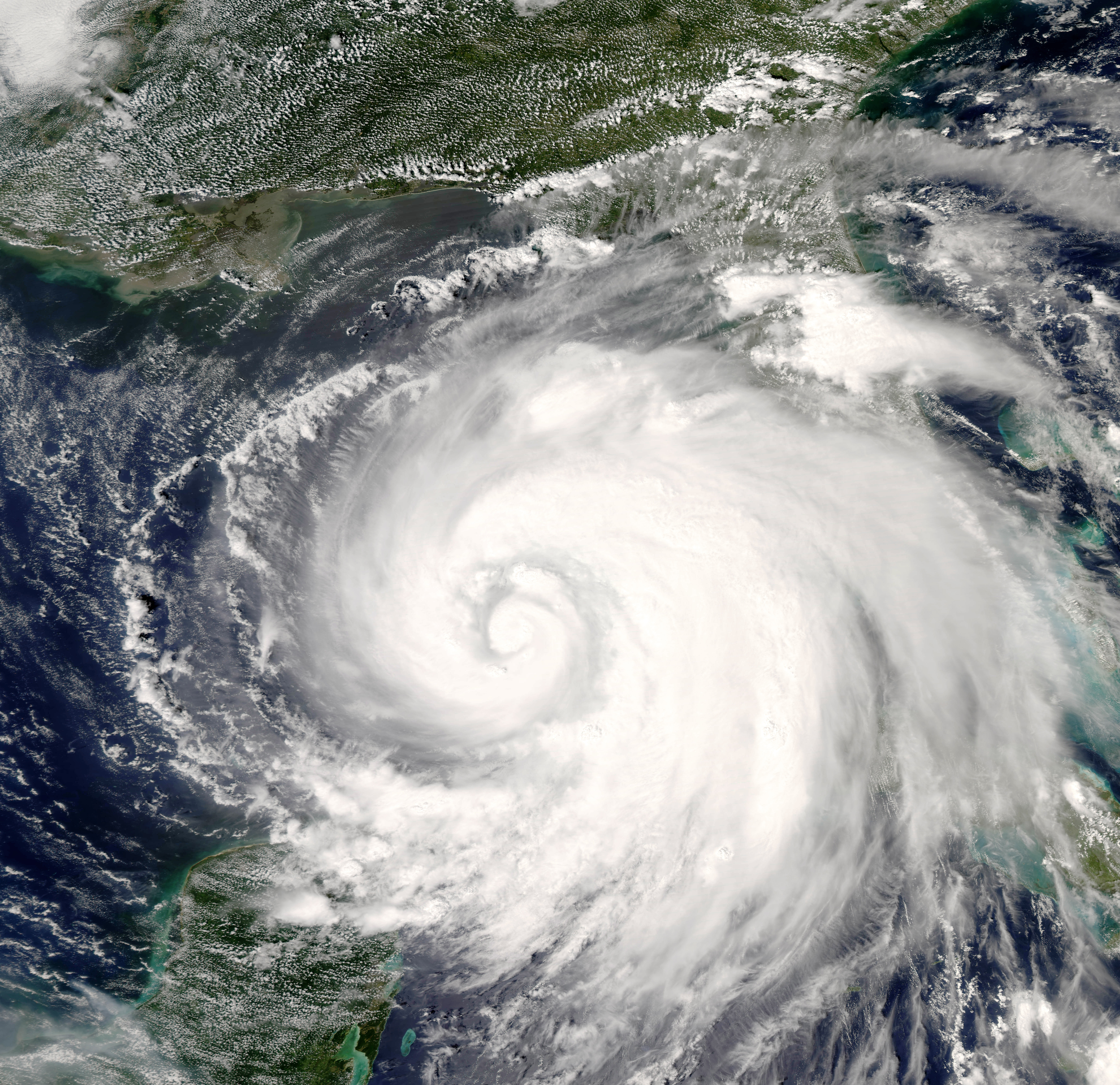 Roughly an hour before this image was captured at 1:50 p.m. Central Daylight Time on September 10, 2008, Ike was a Category 2 hurricane according to the National Hurricane Center. Ike was a large storm, and at the time of this image it was affecting three nations: Cuba, the United States, and Mexico. Ike was a Category 4 storm before its passage over Cuba stripped it of some of its power. It re-emerged in the Gulf of Mexico as a Category 1 storm and re-strengthened. As of September 11, forecasters were warning that Ike might reach Category 3 strength in the warm waters of the Gulf prior to its projected landfall on the central Texas coastline.